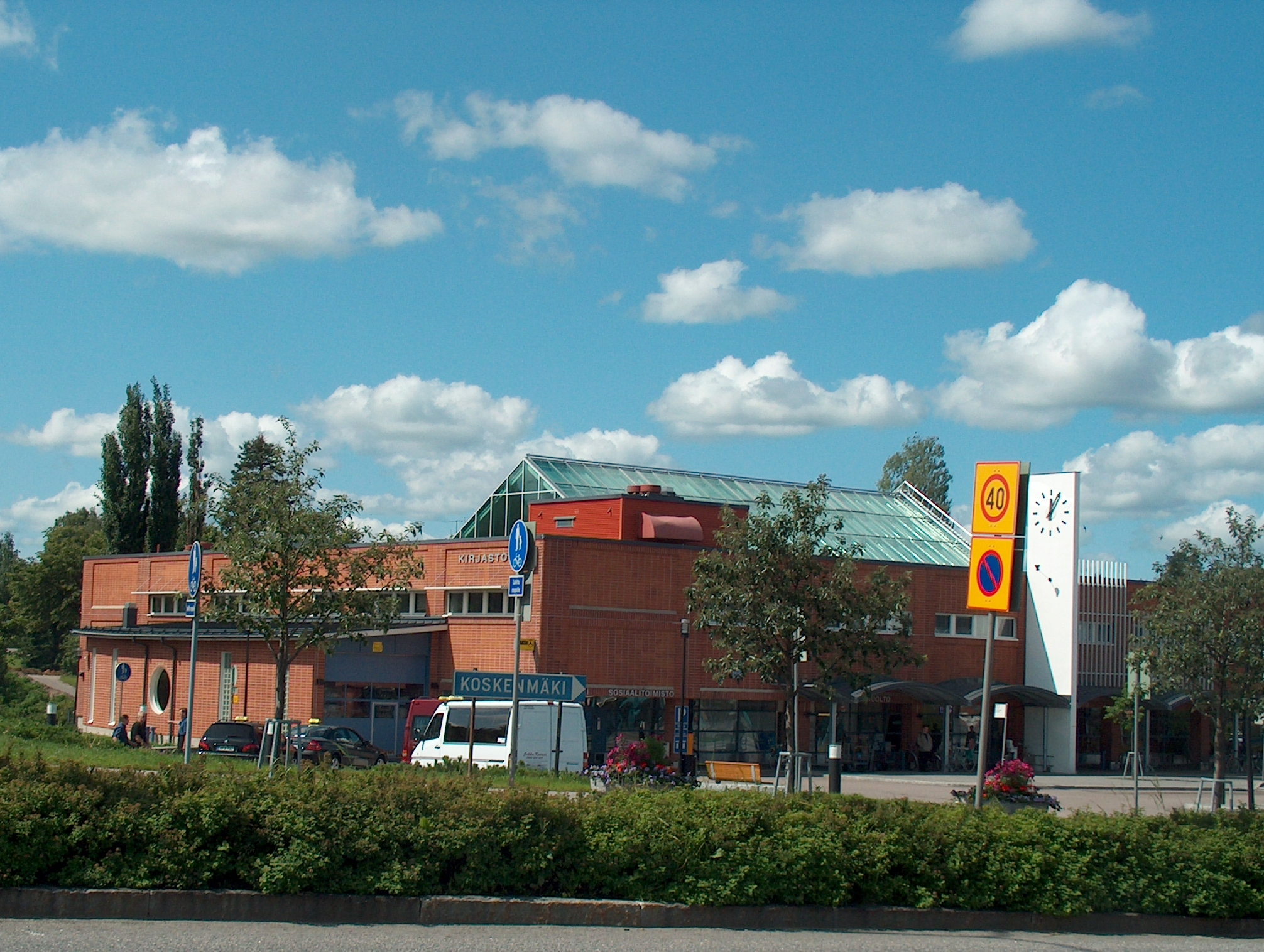 Central Library of Tuusula in Hyrylä, Finland